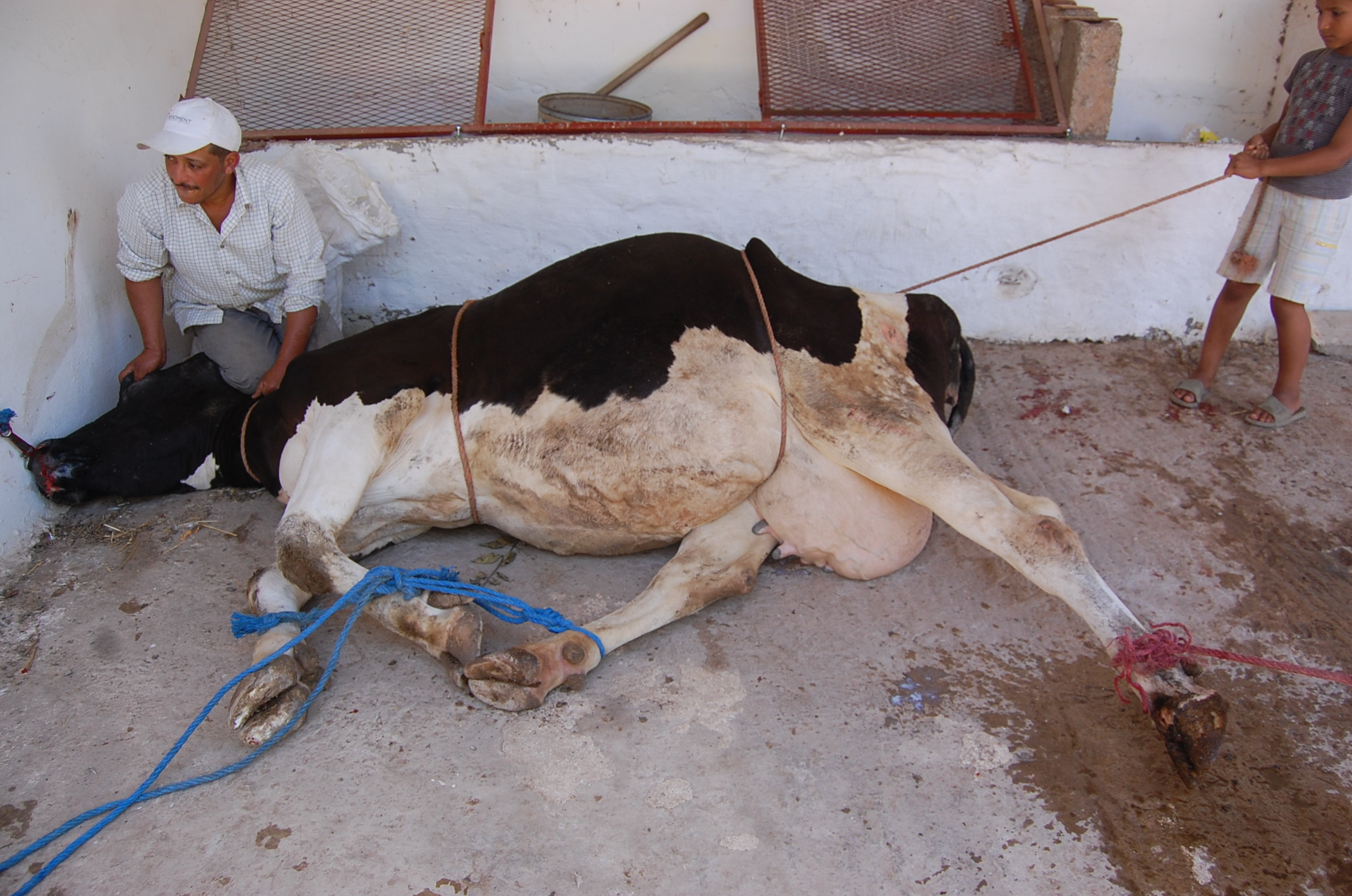 Walon: tinaedje astok po l' operåcion del forcrexhince eterdoetrece (vatche edoirmowe al silazene Walon: Restraint for operation in link posterior leg (interdigital skin hyperplasia)